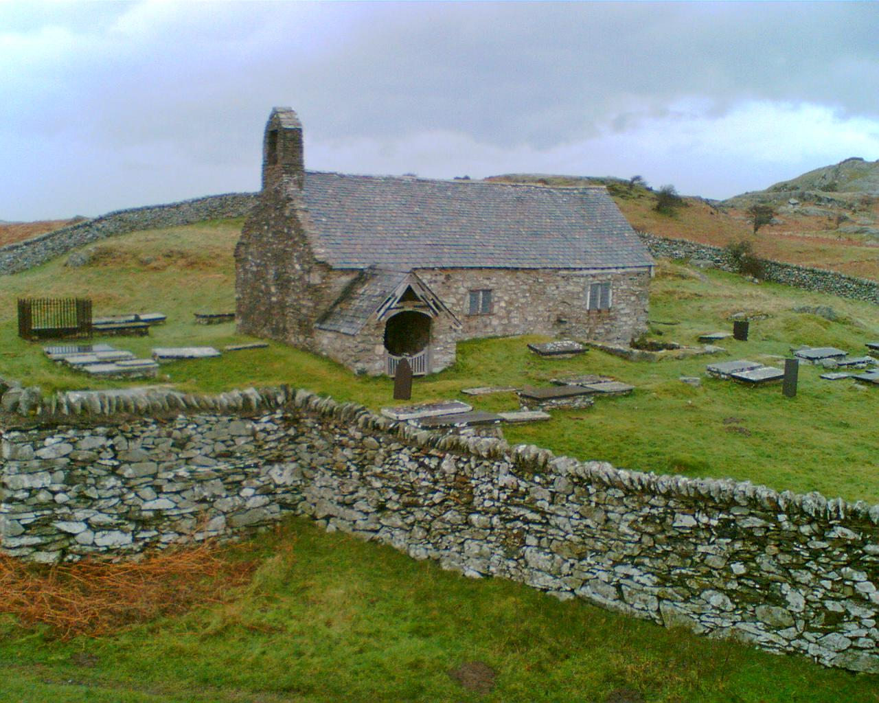 Photo of Llangylennin Church. Taken by me, 7.1.07, and released to the Public Domain Hogyn Lleol 19:59, 7 January 2007 (UTC)